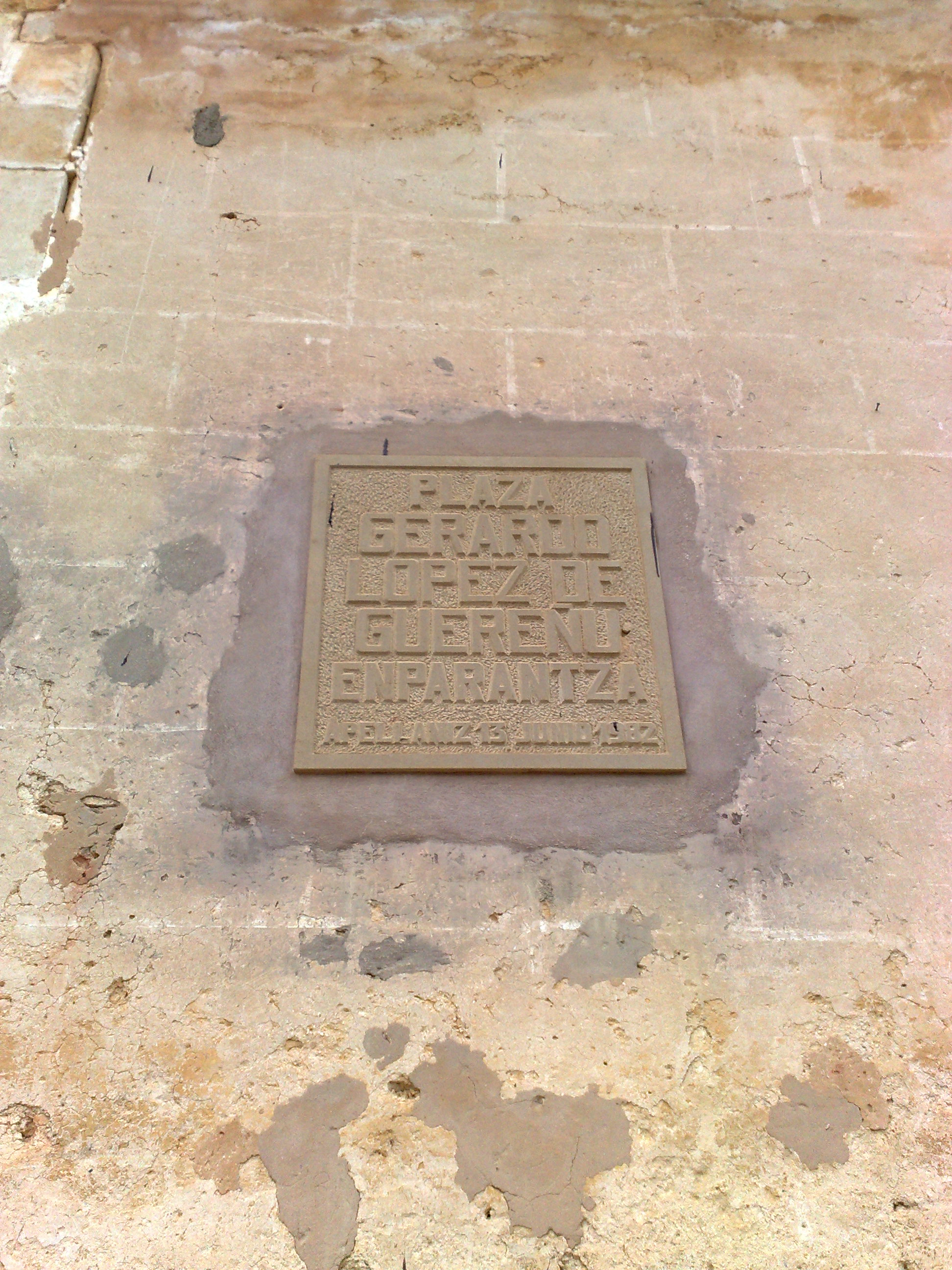 Gerardo Lopez de Gereñu Square, Apinaiz, Arraia-Maeztu, Araba, Basque Country.